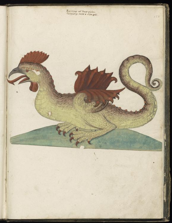 Drawing collected by Felix Platter, to be used in Historiae animalium. The second volume contained drawings of mammals – varying from dogs, sheep and deer to panthers, tigers and camels – and insects, reptiles and amphibians. The drawings were made by several artists, mostly anonymous.